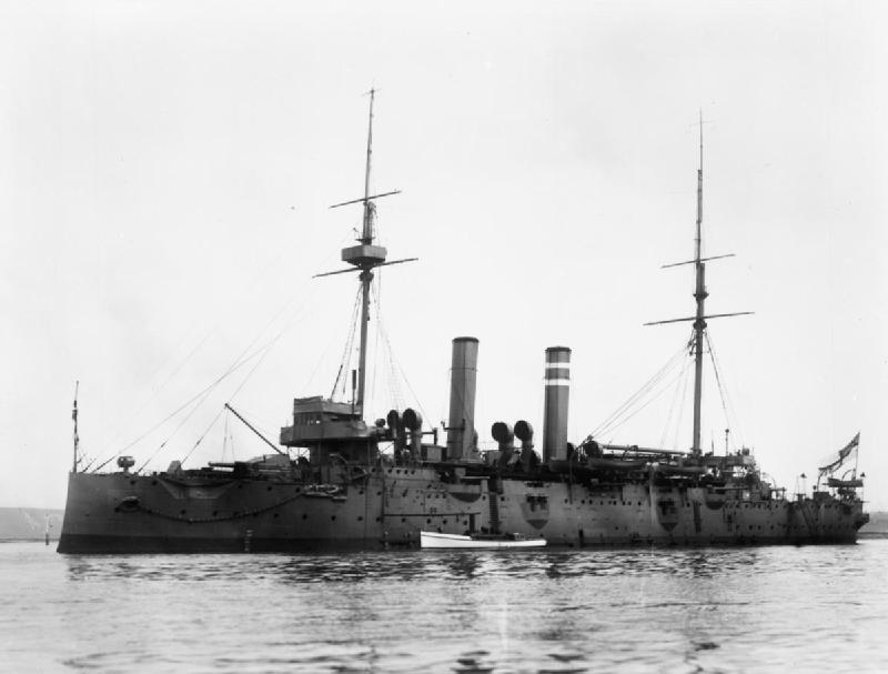 British Edgar class protected cruiser HMS GRAFTON.